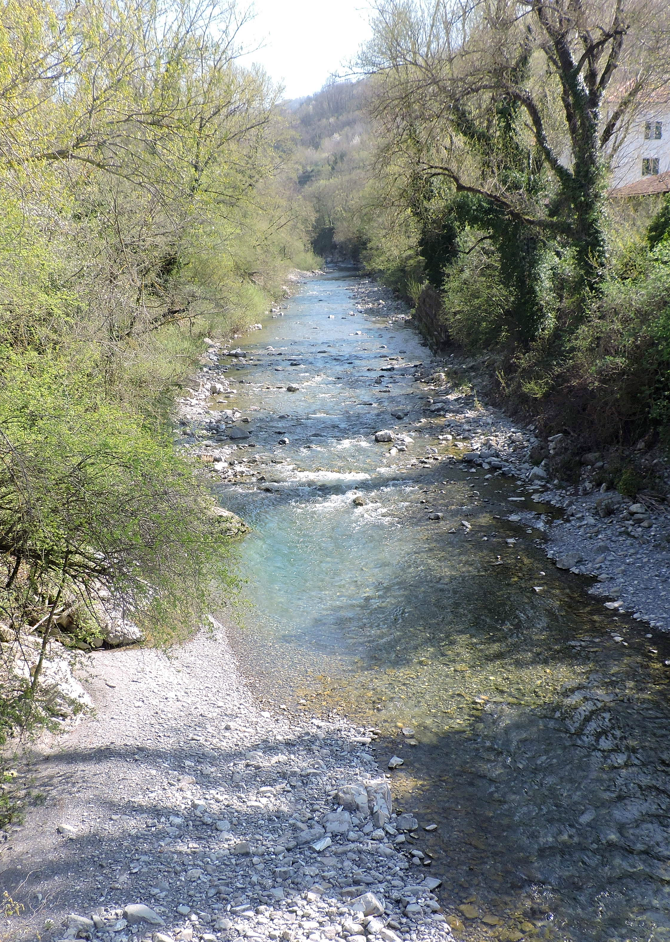 Brevenna (Ligurian Apennines) in Casella